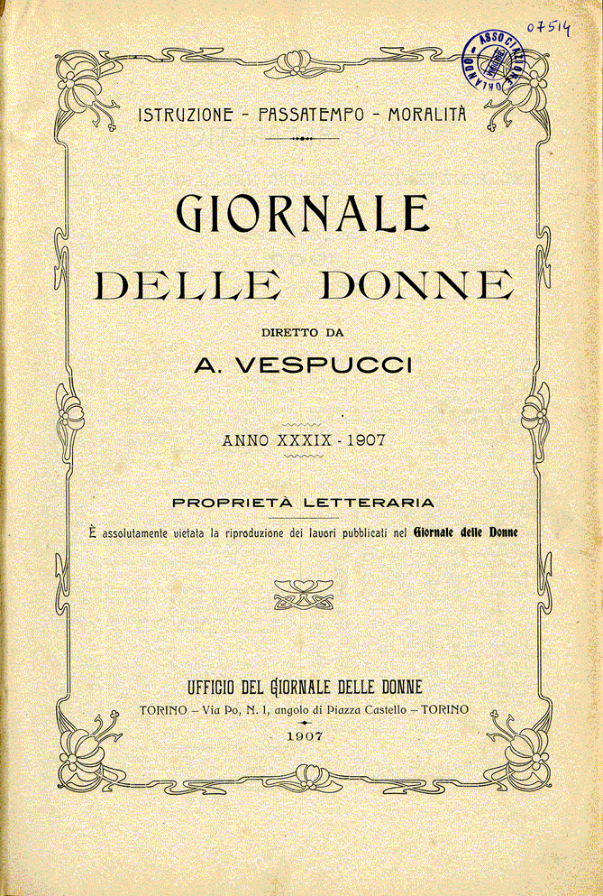 Giornale delle donne, cover, 1907